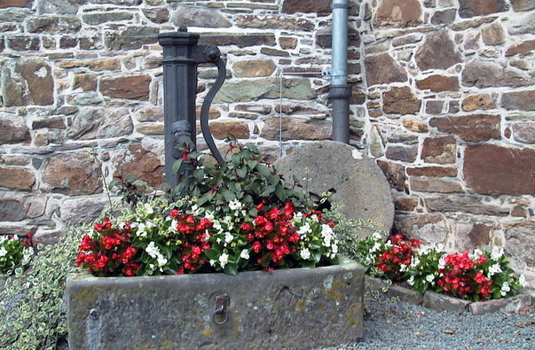 Flower idyll at castle Ehreshoven.